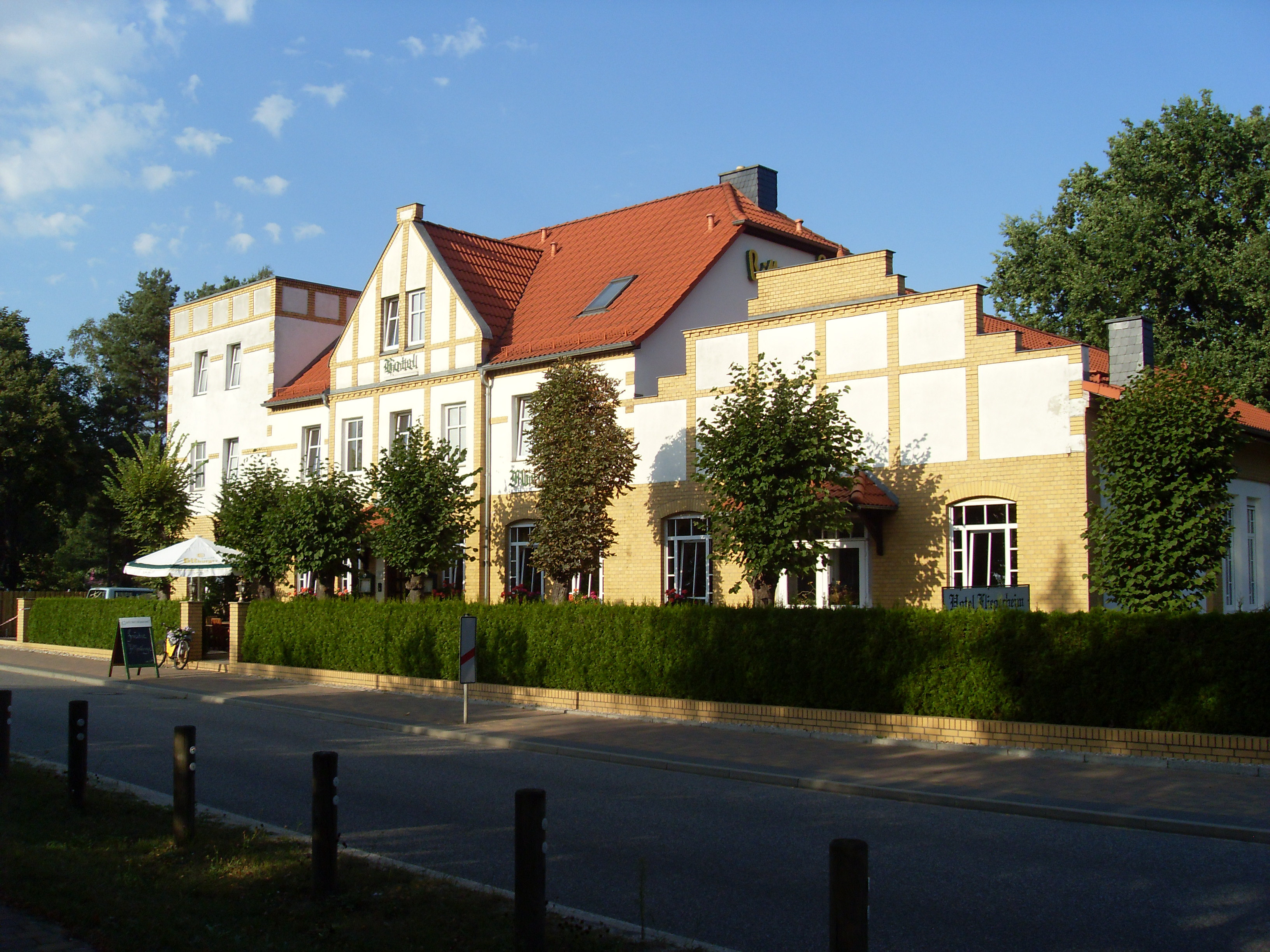 The Fliegerheim Borkheide, still a hotel